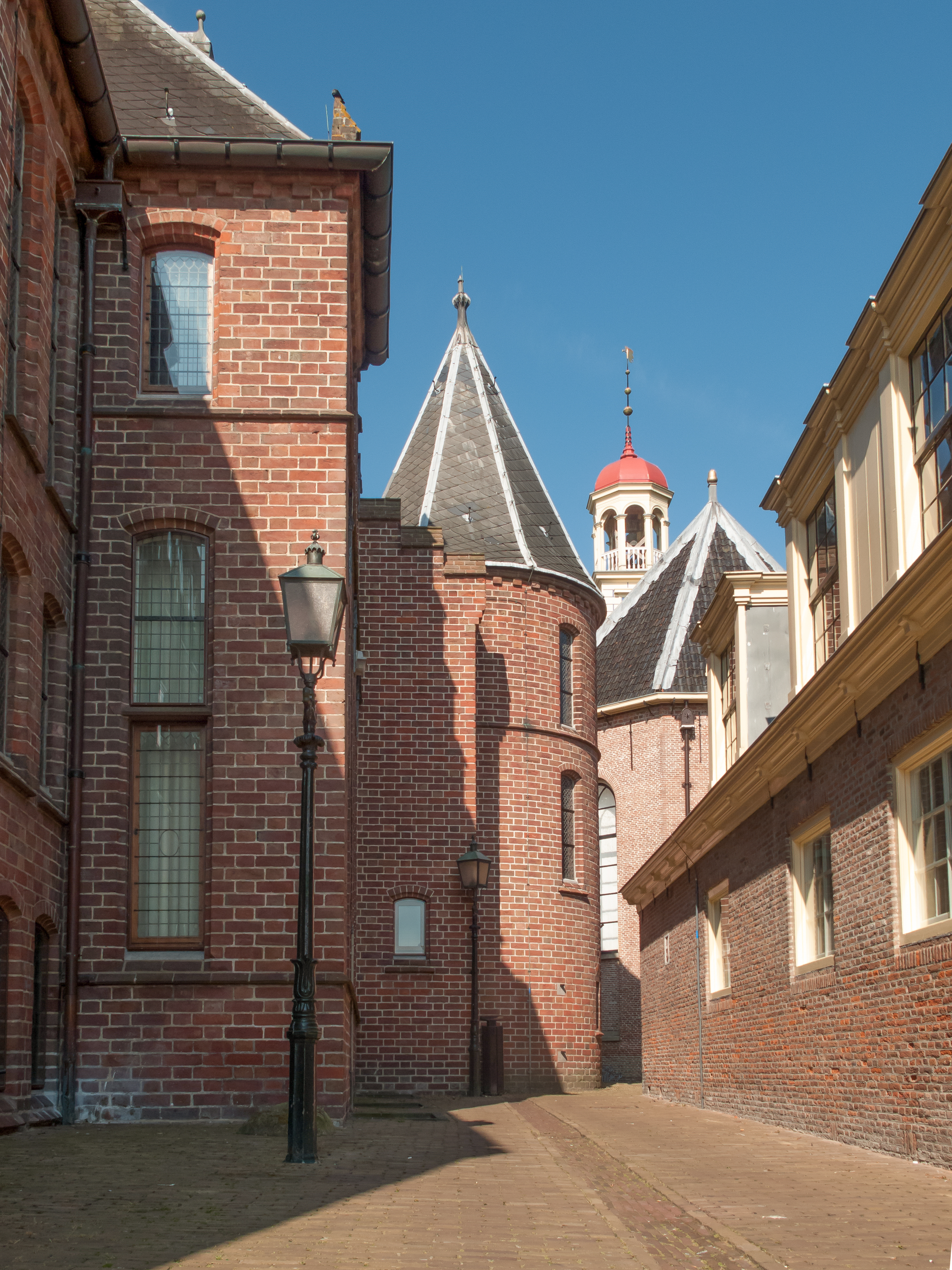 Assen, tower het Drents Archief